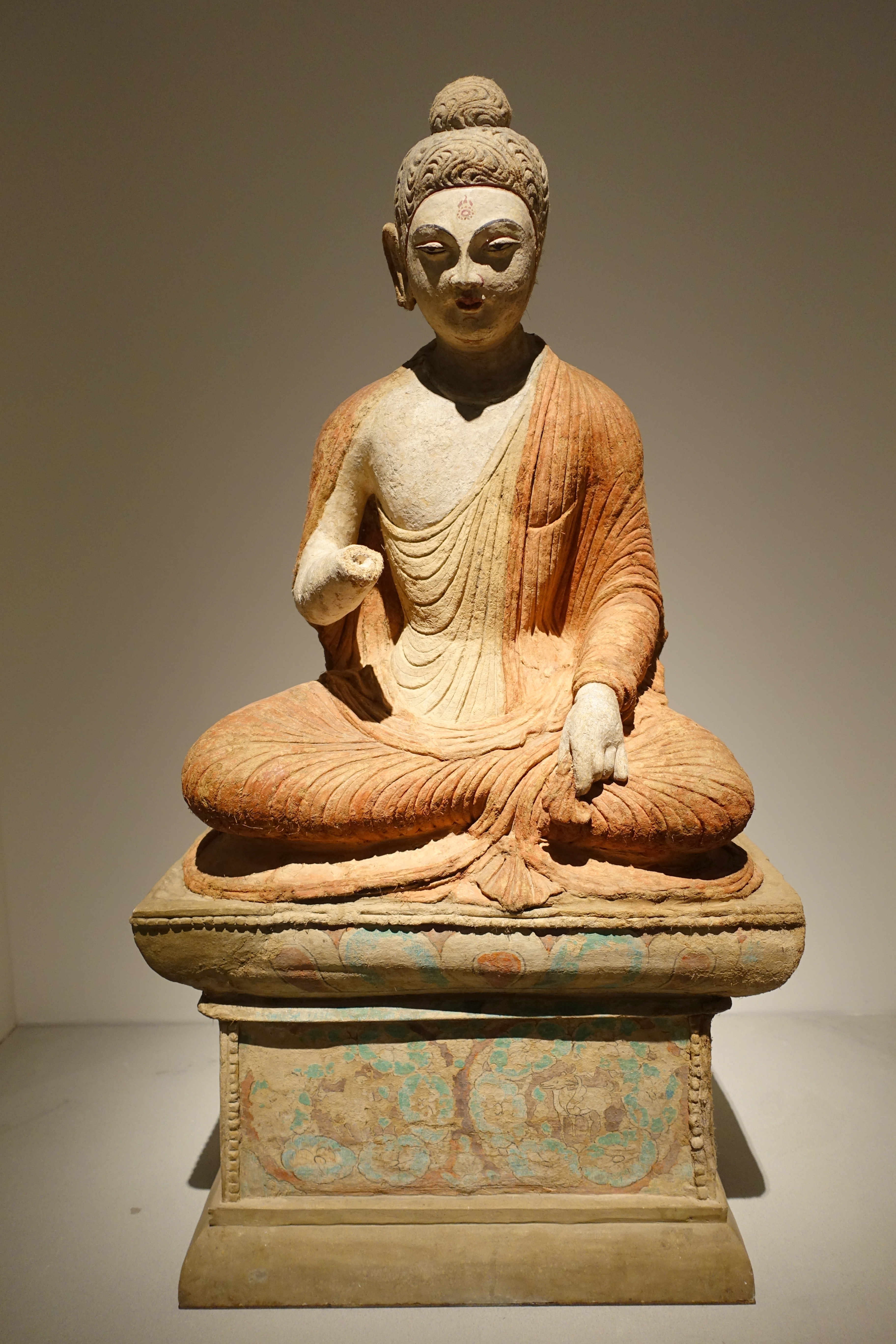 Exhibit in the Ethnological Museum, Berlin, Germany.